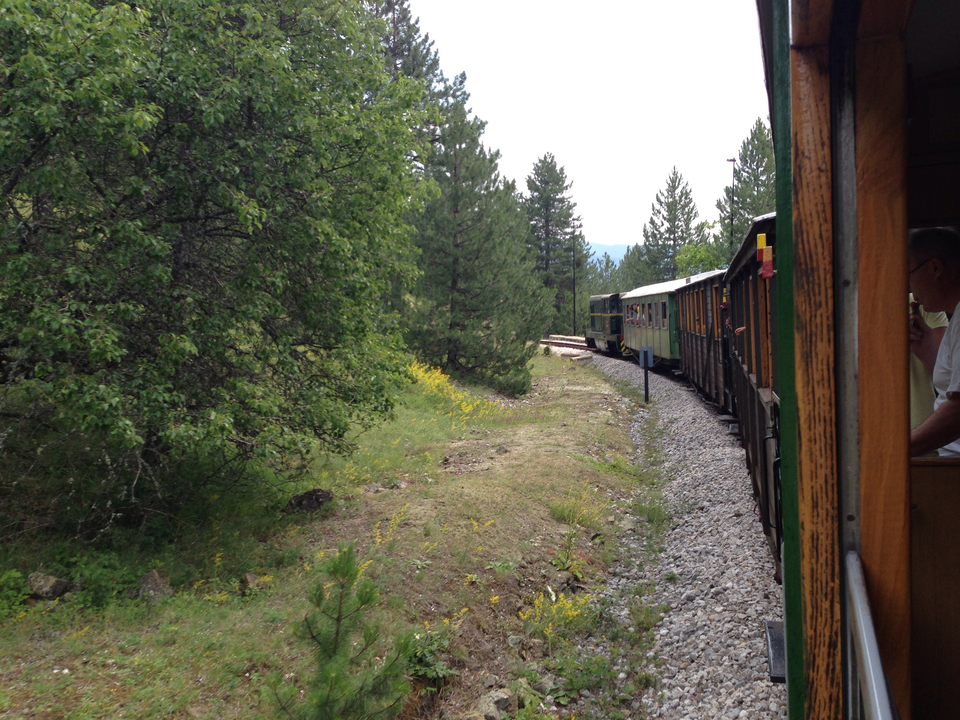 GCERC - Sargan Eight